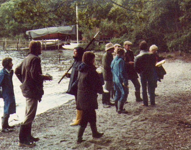 Location filming on Loch Lomond near Balmaha